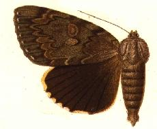 PLATE CXCII.